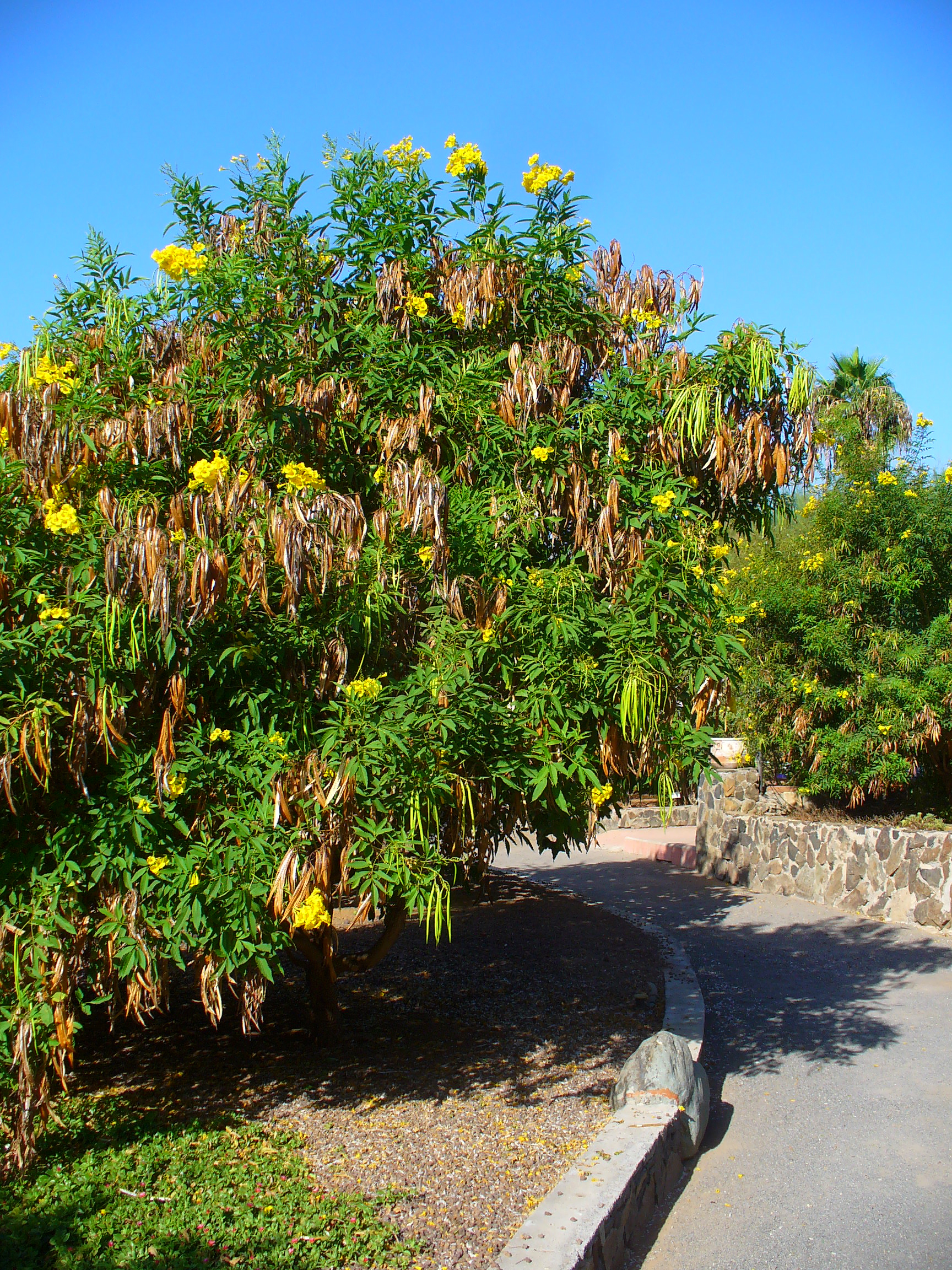 Yellow Trumpetbush; Habitus; Botanical Garden Maspalomas, Gran Canaria, Canary Islands, Spain